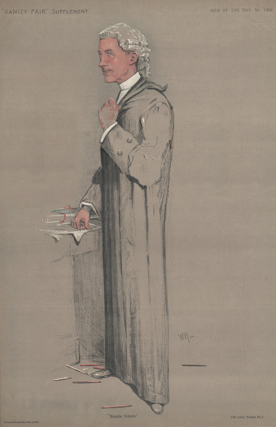 Men of the Day No.1301: Caricature of Sir JA Simon Kt KC. Caption reads: "Simple Simon"